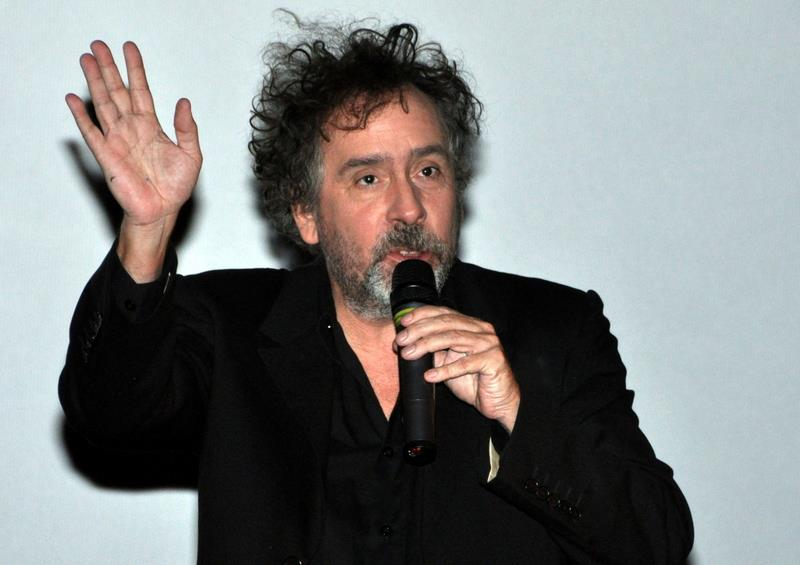 Tim Burton at the french premiere of "Frankenweenie"